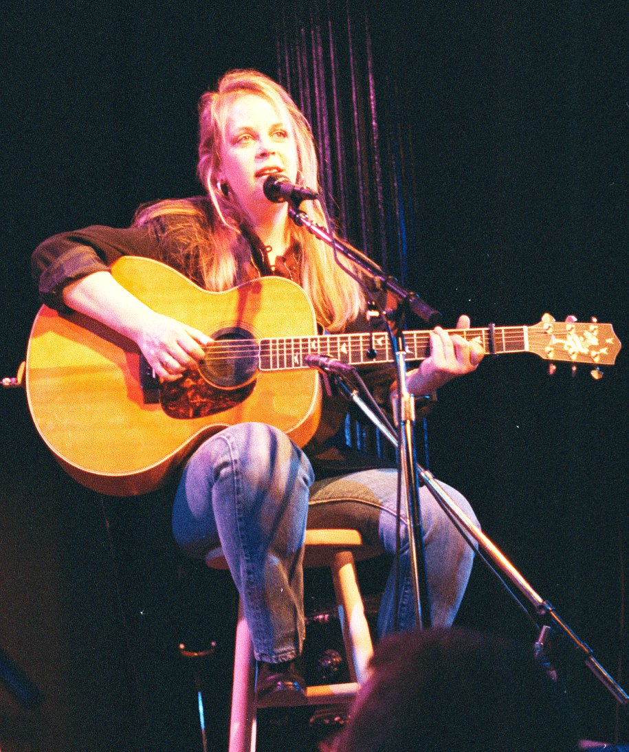 Mary Chapin Carpenter, playing at the Bottom Line in New York City